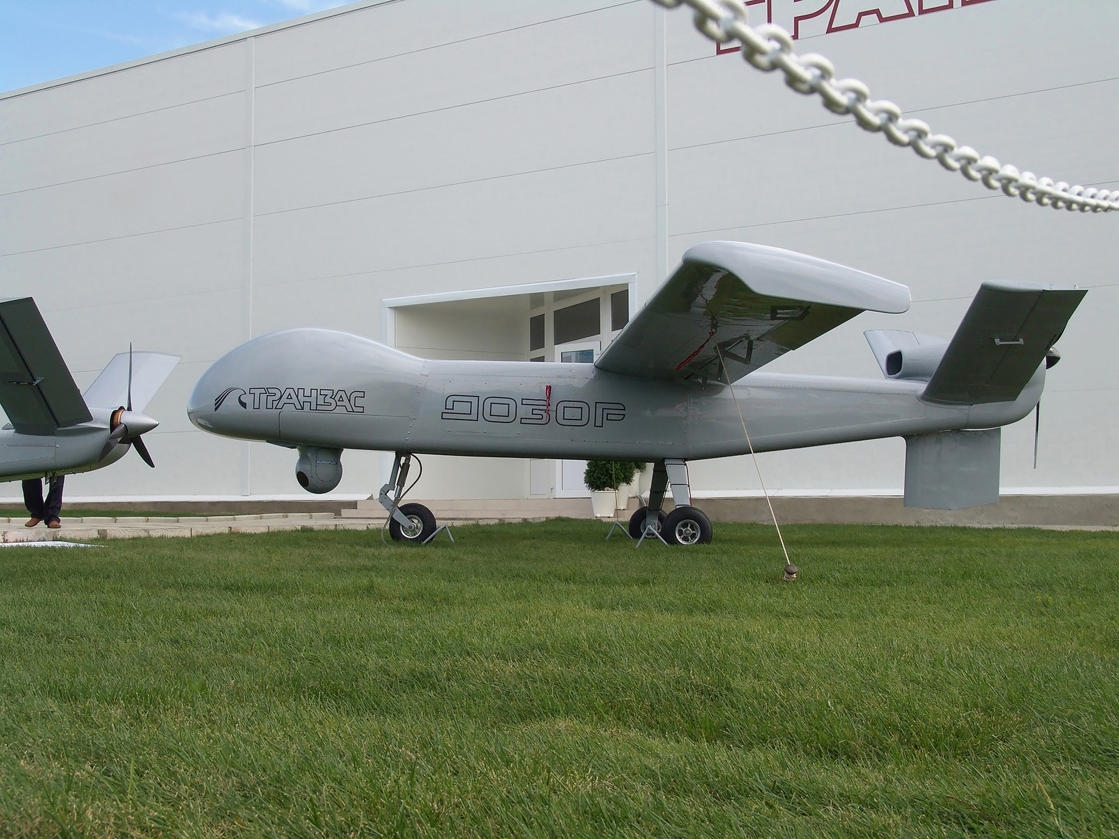 Russian UAV «Dozor-600» Moscow Air Show MAKS-2009.